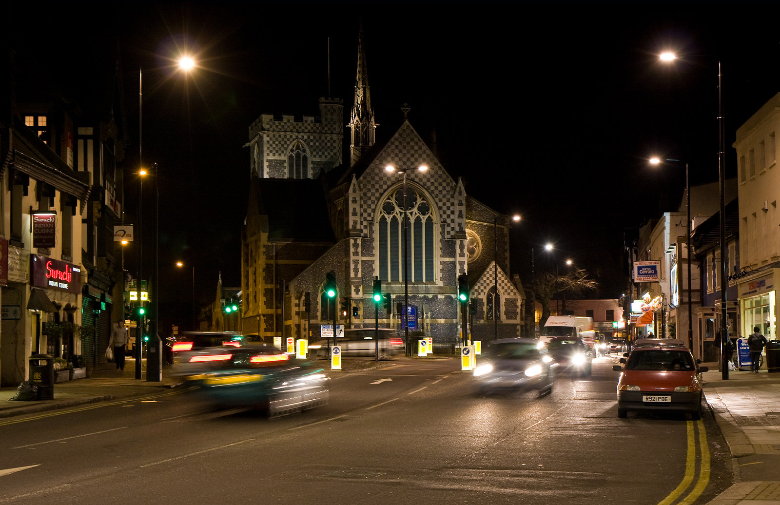 St. John The Baptist Church, Barnet A night-time view of this local landmark from Barnet hill. Wood Street is on the left of the church and the High Street is on the right.